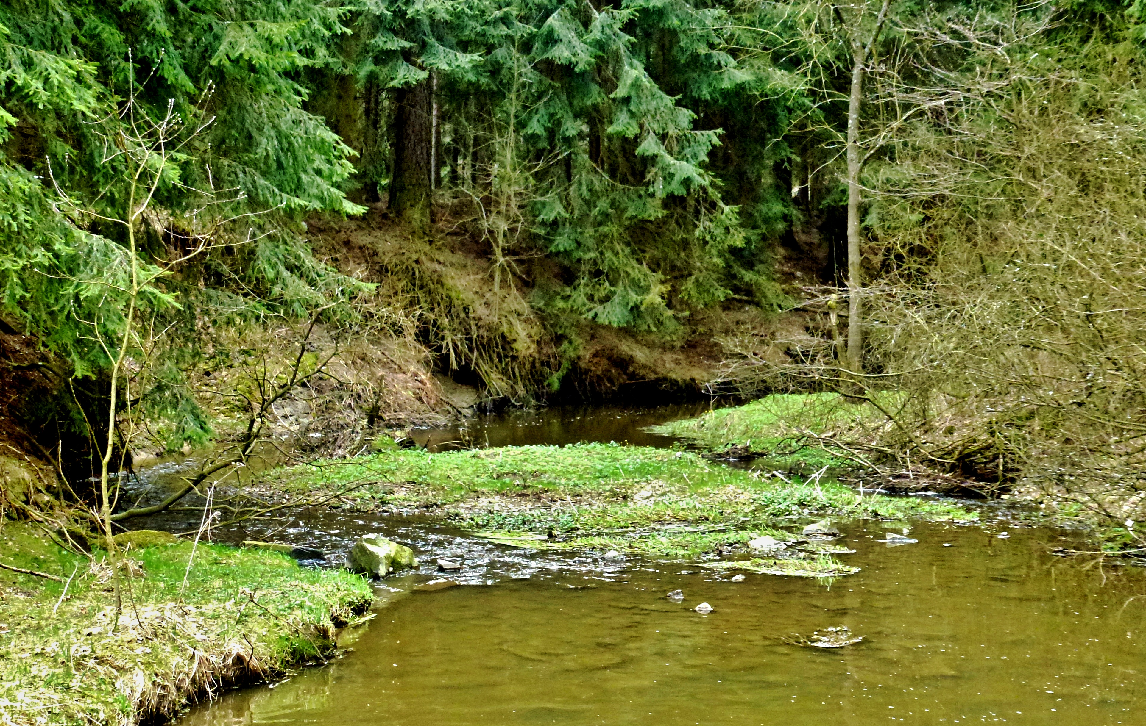 The river "Chrudimka" below the pond "Groš" in the municipality of "Kameničky". The river valley is part of the European important locality of the Valley "Chrudimka". The beginning of the protected area with the source of the river is near the road between municipalities"Dědová – Kameničky" and ends in front of the water reservoir "Hamry", near the road between the villages "Hamry – Vortová". Photo location: Czechia, Pardubice Region, municipality Kameničky, the "Kameničská" Highlands, the river of "Chrudimka".